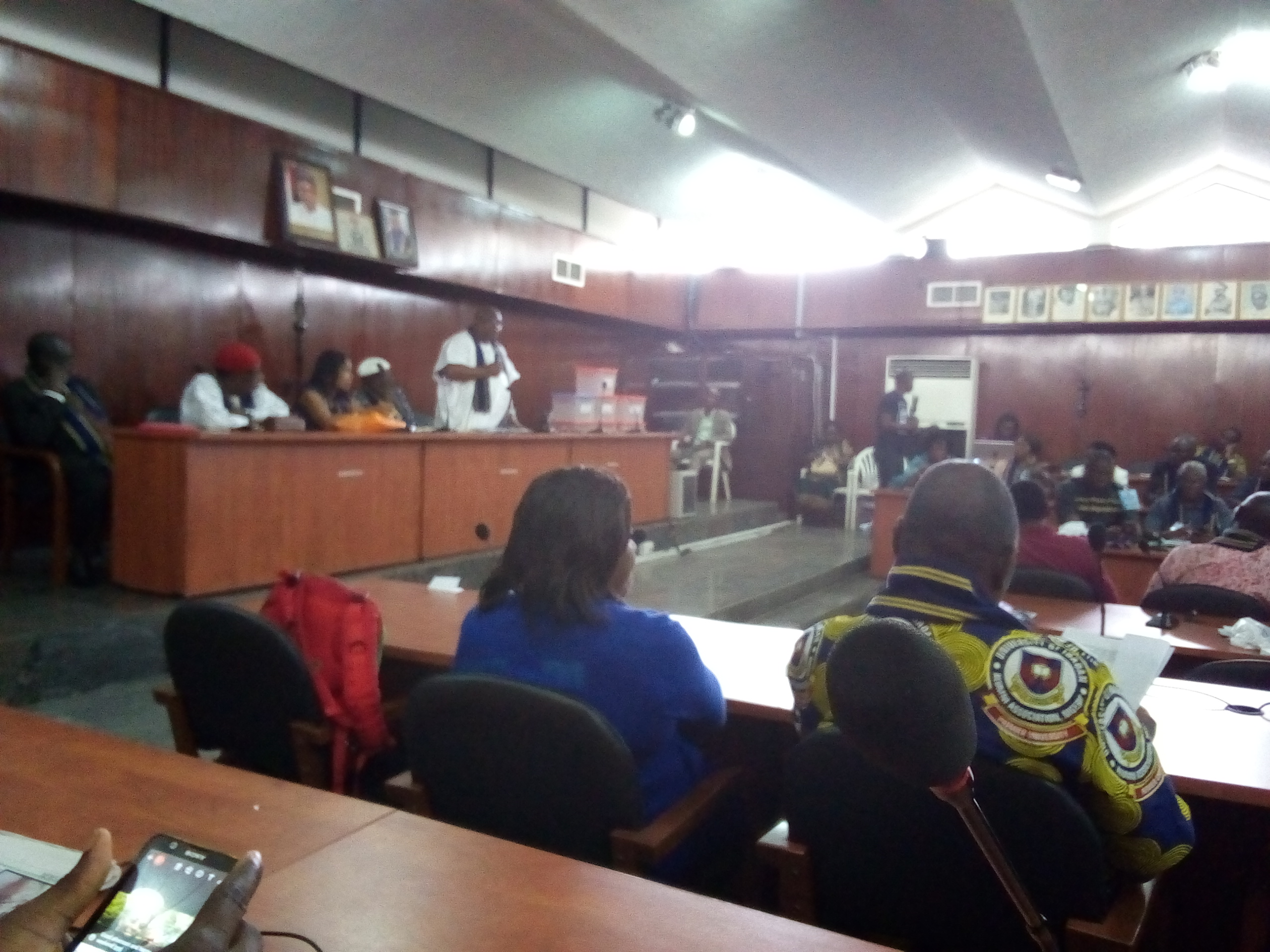 University of Ibadan Alumni Association (UIAA) 2018 Congress Meeting at UI Senate Building